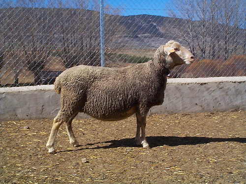 cartera sheep